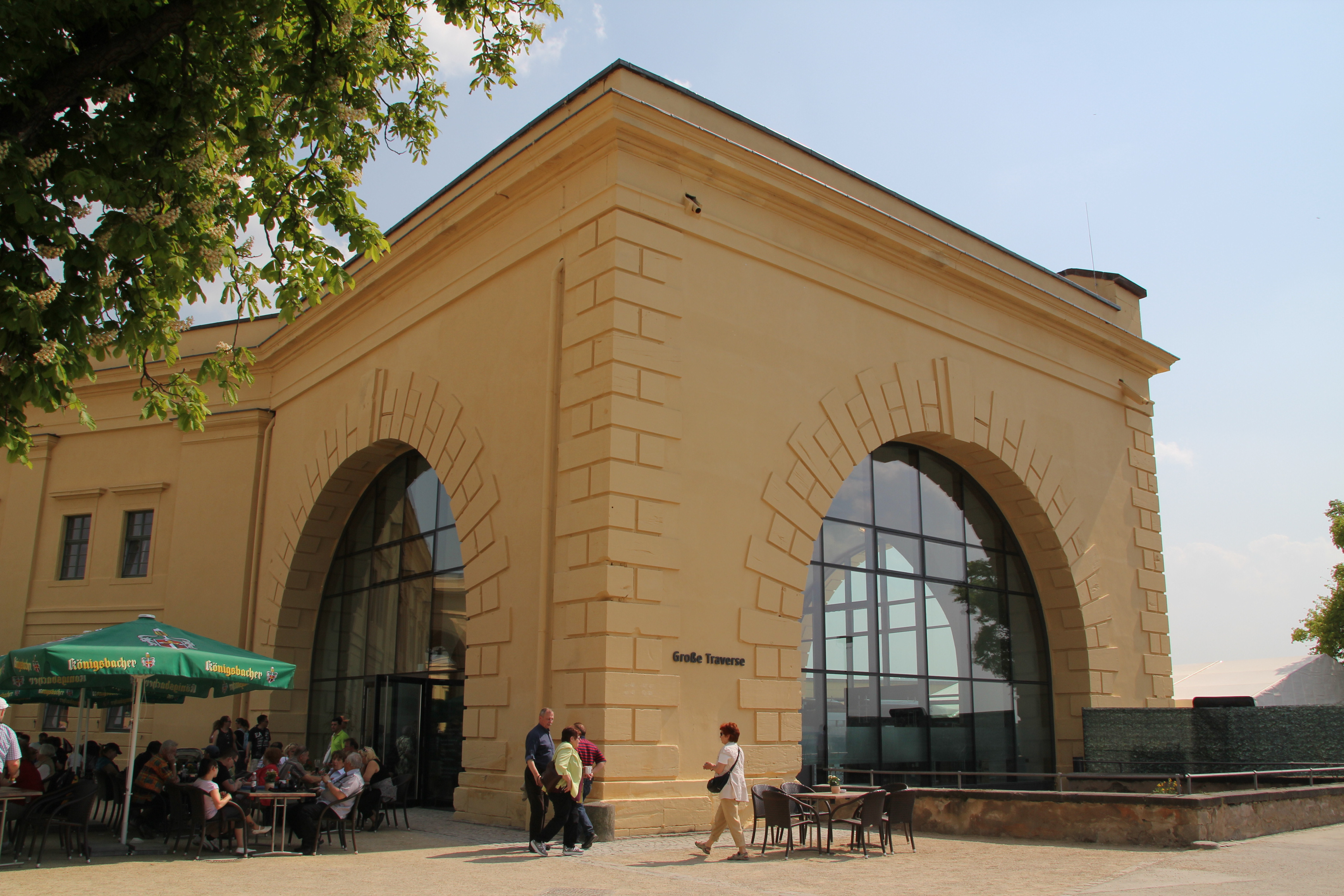 Federal Horticultural Show 2011 in Koblenz - Ehrenbreitstein Fortress